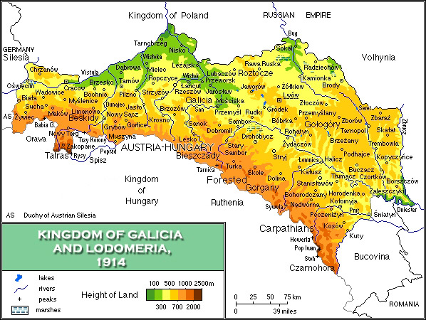 Map of the Kingdom of Galicia, 1914/Mapa fizyczna Galicji 1846-1918